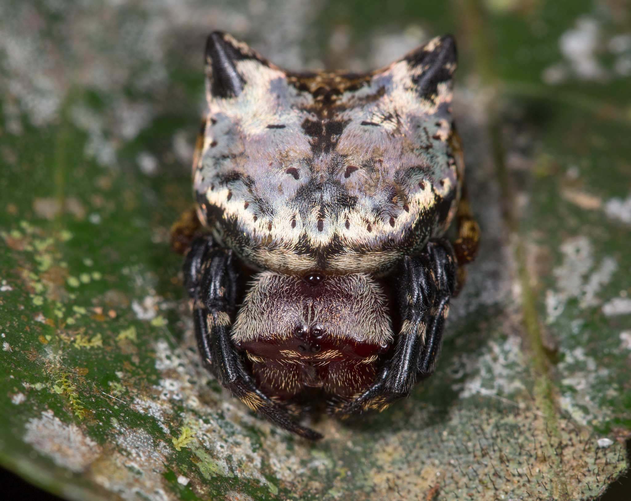 Aspidolasius branicki. Species of arachnid.